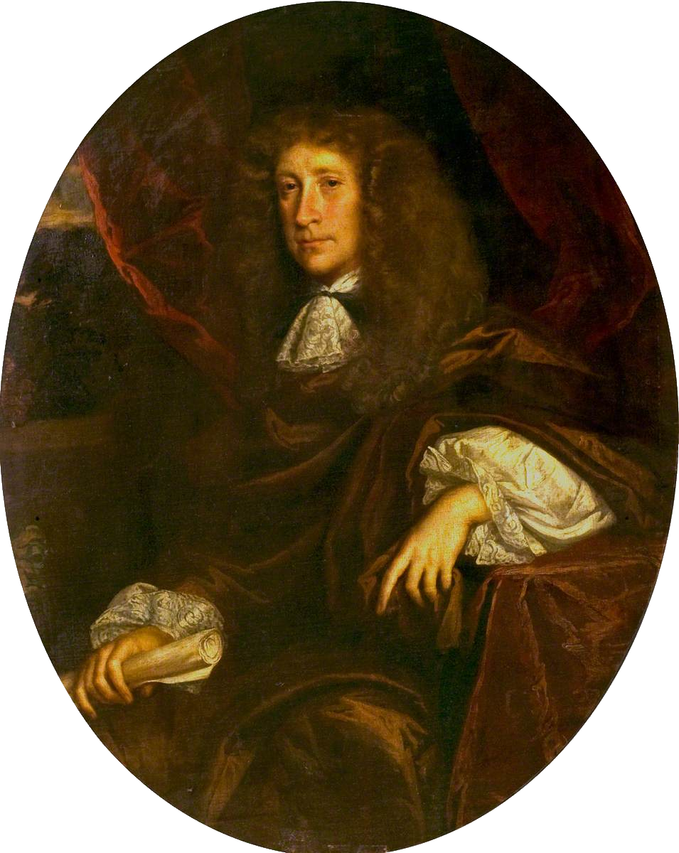 Oil portrait of Thomas Staveley (1626-1684); displayed at New Walk Museum & Art Gallery; purchased from Reverend W. C. Hall in 1946. Transparency layer added to the borders in GIMP.